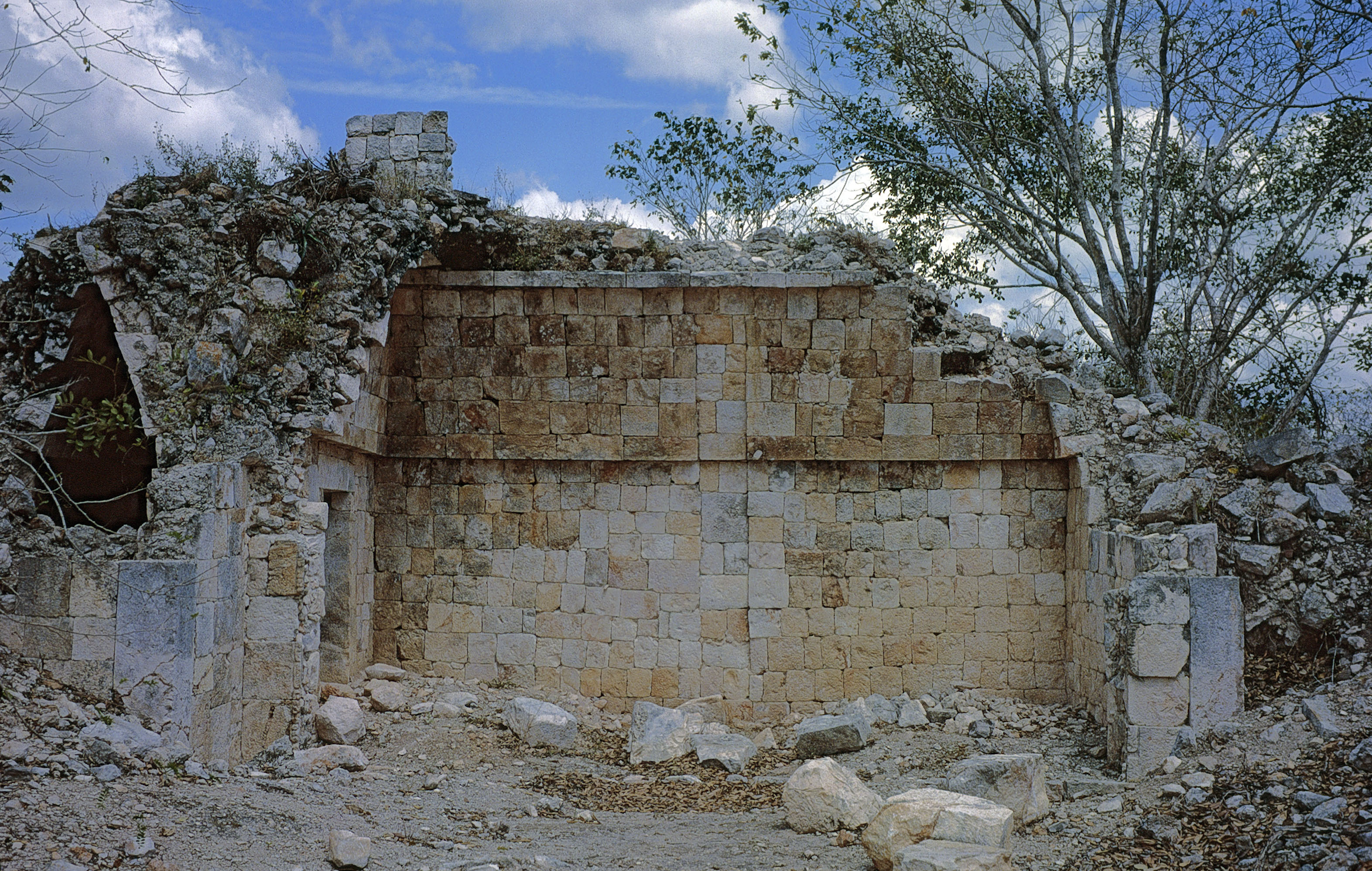 Xcalumkin, Campeche, Mexico: Initial Series group, north building, present state